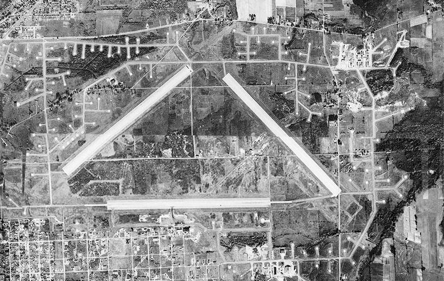 1951 photo of Hancock Field, New York